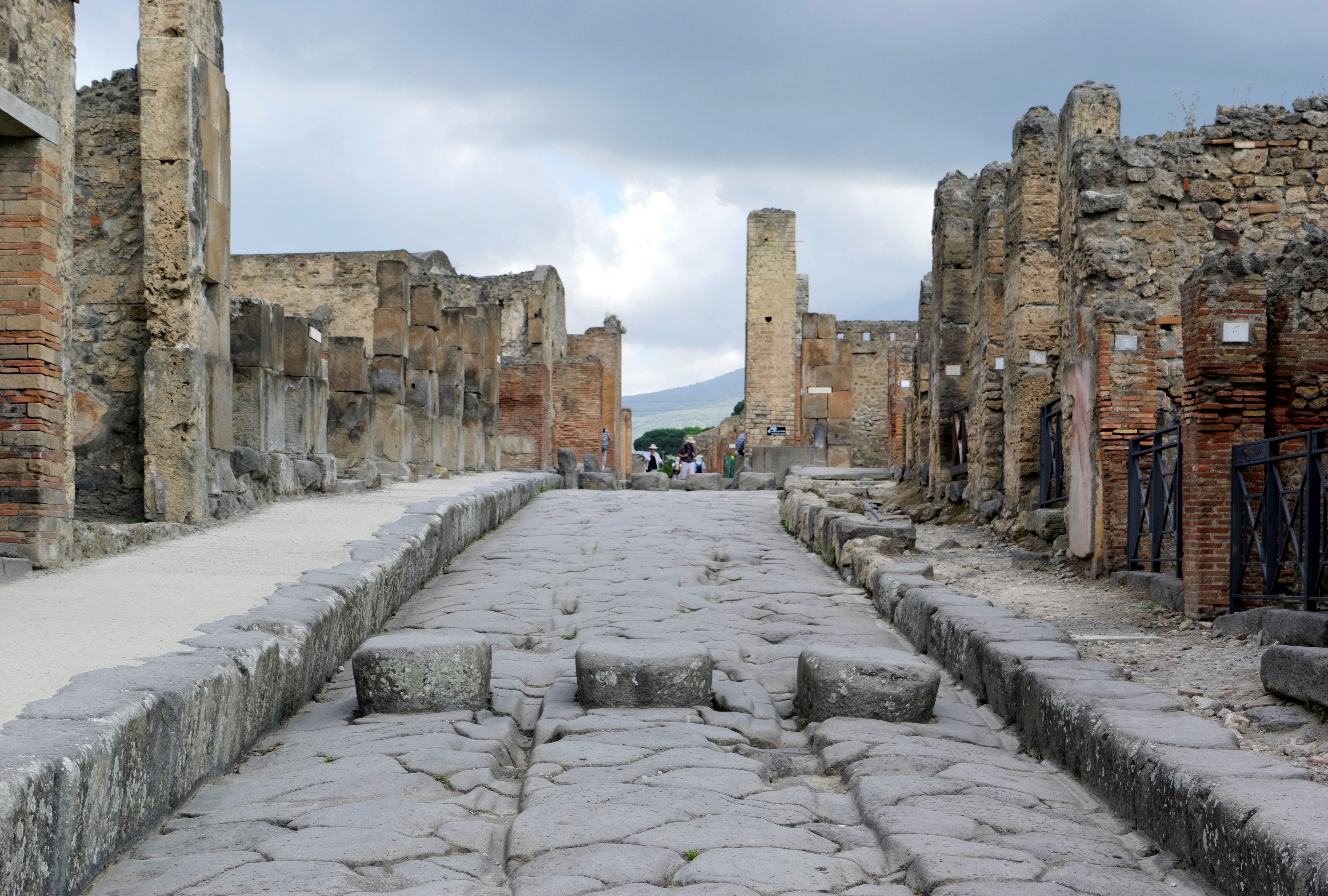 Pompeii, pedestrian crossing at the Via Stabiana